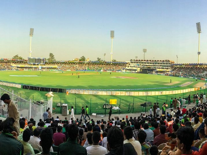 Gaddafi Stadium This is a photo of a monument in Pakistan identified as the PB-U-39